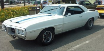 1969 Pontiac Trans Am